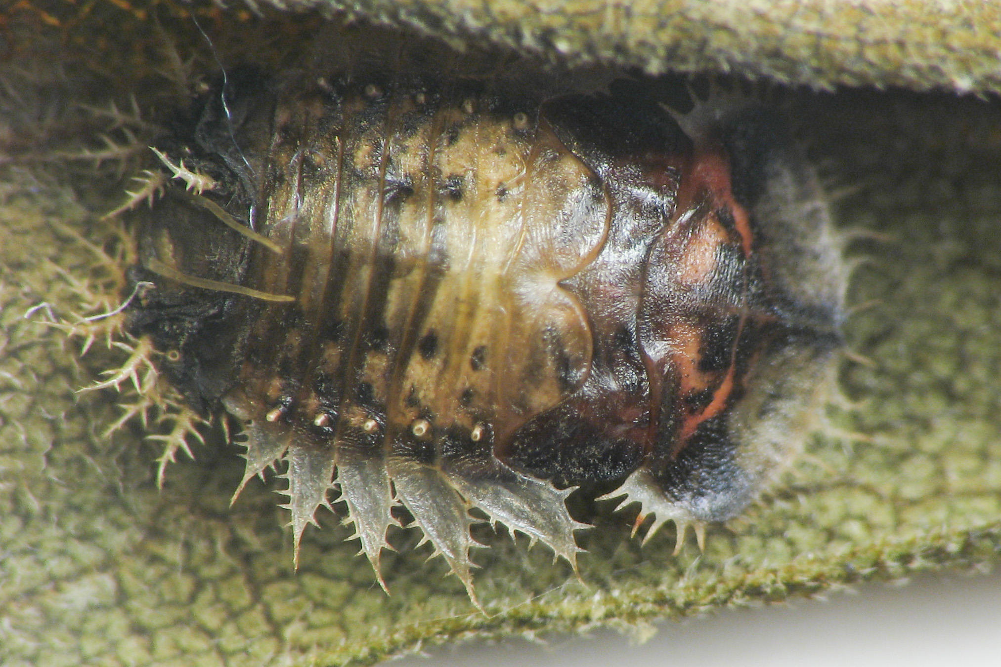 Golden tortoise beetle, Charidotella sexpunctata, pupa on bindweed. Pennypack Restoration Trust, Montgomery County, Pennsylvania, USA.